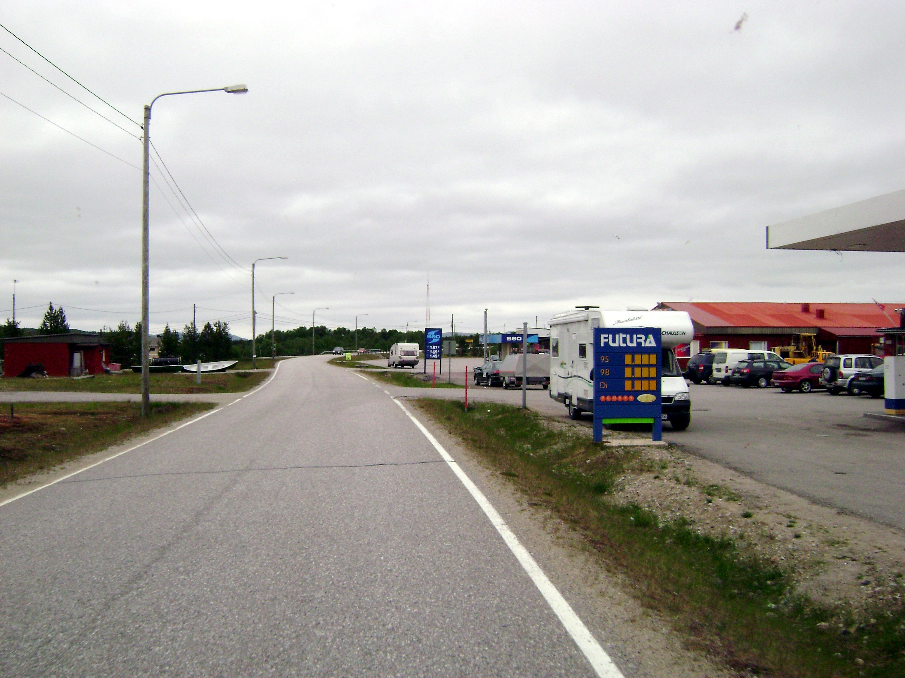 Regional road 971 (main road 92 since 2016) in Näätämö, Inari, Finland near the Norwegian border.